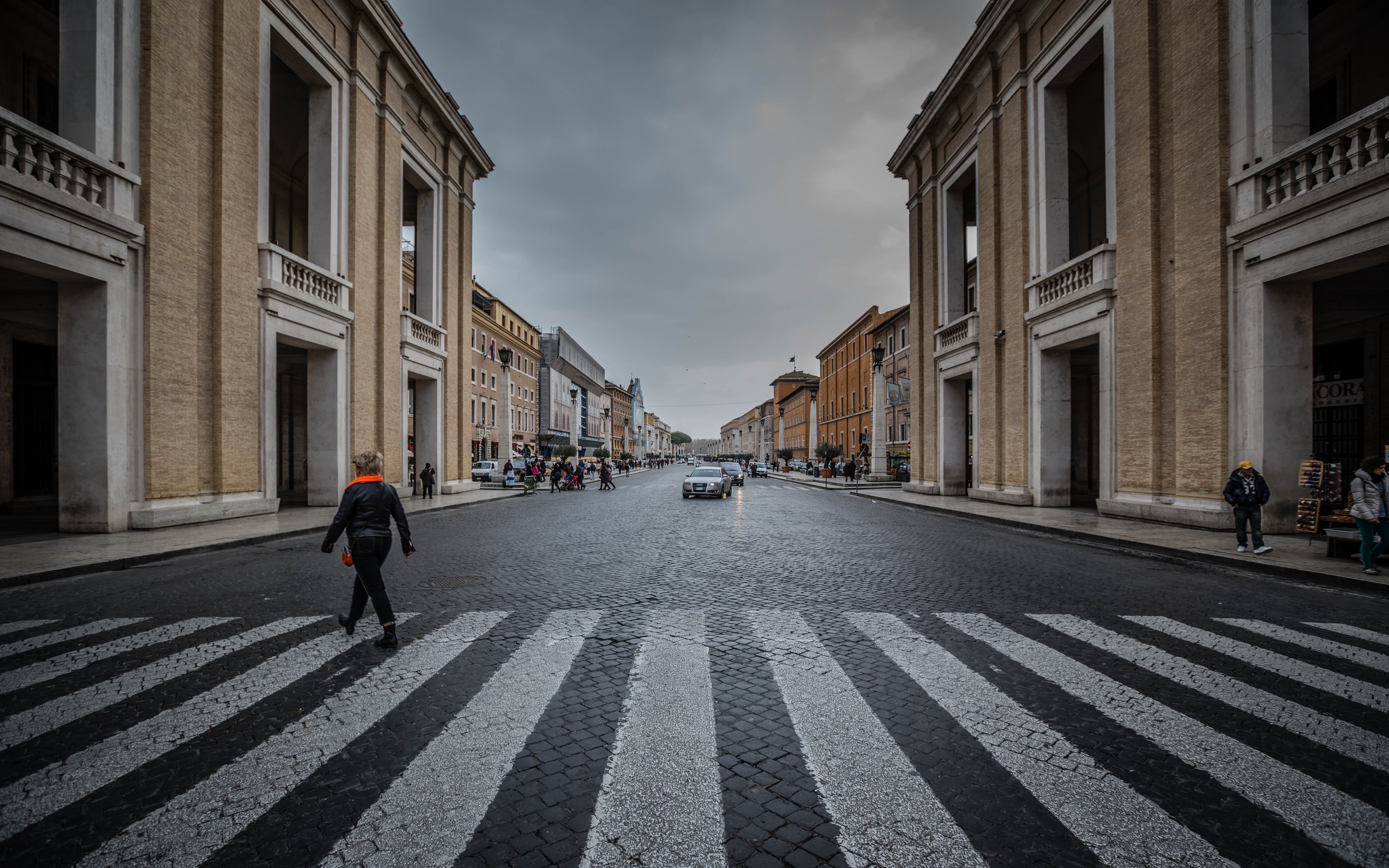 Via della Conciliazione (Road of the Conciliation[1]) is a street in the Rione of Borgo within Rome, Italy. Roughly 500 metres (1,600 ft) in length,[2] it connects Saint Peter's Square to the Castel Sant'Angelo on the western bank of the Tiber River. The road was constructed between 1936 and 1950, and it is the primary access route to the Square. In addition to shops, it is bordered by a number of historical and religious buildings – including the Palazzo Torlonia, the Palazzo dei Penitenzieri and the Palazzo dei Convertendi, and the churches of Santa Maria in Traspontina and Santo Spirito in Sassia. Despite being one of the few major thoroughfares in Rome able to cope with a high volume of traffic without congestion,[3] it is the subject of much ire both within the Roman community and among historical scholars due to the circumstances under which it was constructed.[4][5] The area around the church was rebuilt several times following the various Sacks of Rome, and again after having deteriorated due to the loss of prosperity resulting from the Papacy's relocation to Avignon during the 14th century. Through all of these reconstructions, the area in front of the short courtyard of Saint Peter's Basilica remained a maze of densely packed structures overhanging narrow side-streets and alleyways.